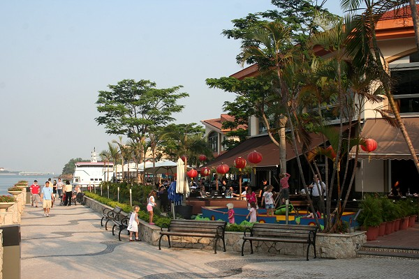 Seaside at Discovery Bay